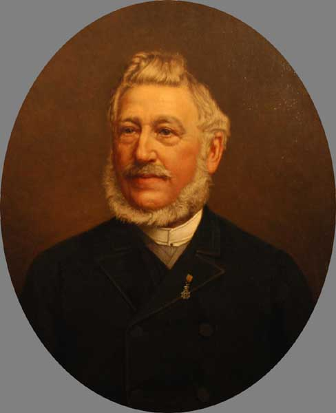 Painting depicting the bust B.R.P. Hasselman, mayor of Tiel from 1867-1897. In his left buttonhole he wears a Knight’s Cross (Orde Orange-Nassau). Unsigned and no date. Oval shaped canvas, span 0,66 x 0,54. A metal plate is attached to the bottom-right corner of the frame, which reads: “Fire brigade Tiel to Mayor Hasselman 1867-1892”.